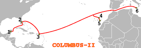 Route of the COLUMBUS-II Submarine communications cable. For more information regarding numbered landing points, see main article.